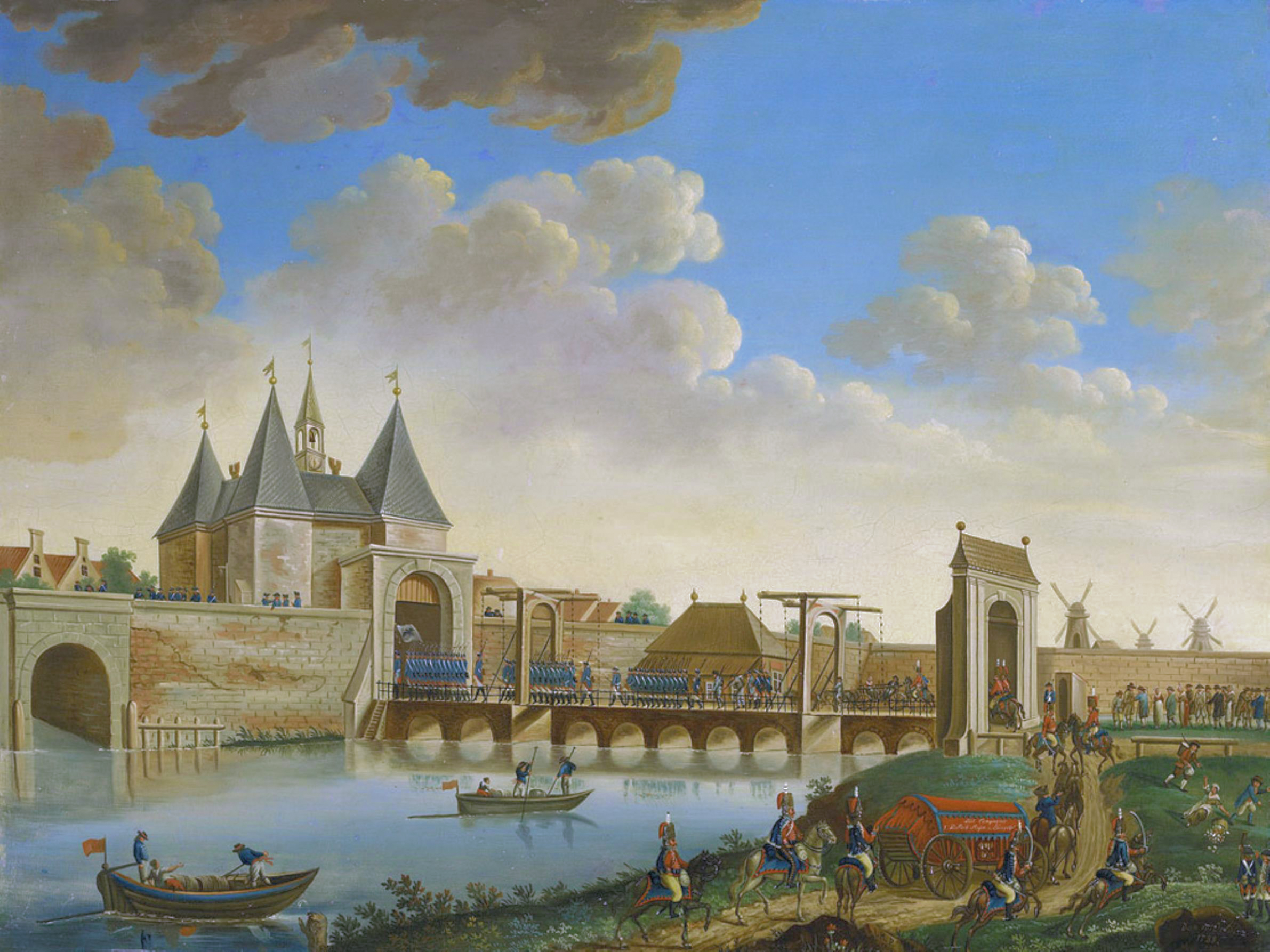 Entry of the Prussian troops in 1787 De intocht van de Pruisische troepen bij de Leidsepoort op 10 oktober 1787 oil on copper 54 x 71,5 cm signed b.c.: I.M.P. 1800 inscribed b.r.on the stone: den 10e octb. / 1788 inscribed b.r. on the cart: Leib Compagnie / 1. Battail: Major.v.Langela